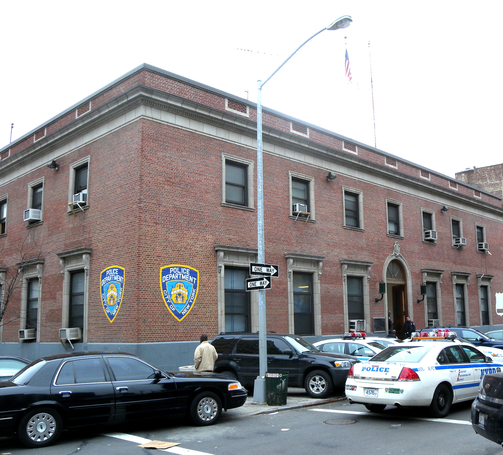 Looking southeast at 46th Pct on a cloudy afternoon.